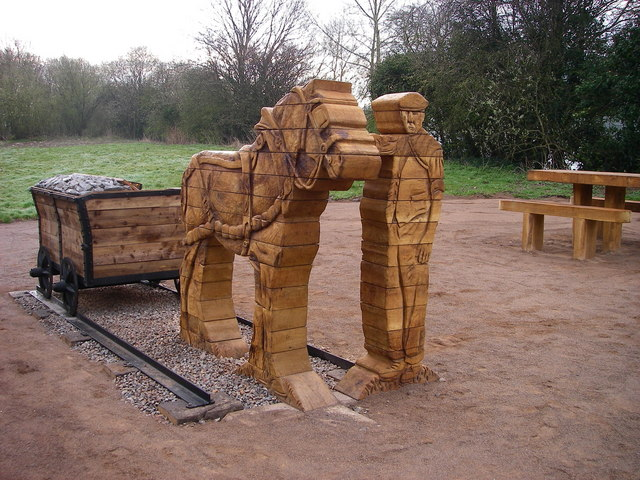 Brecon: the longest railway in the world These wooden forms recently installed by British Waterways beside the canal at Brecon commemorate the one-time 'longest railway in the world' which ran - of all places - from Brecon to Kington via Hay-on-Wye. It was actually two horse-drawn tramways whose combined length exceeded 36 miles and claimed the title between 1820 and 1837.